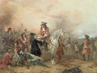 Marlborough signing the Blenheim dispatch by Robert Alexander Hillingford.